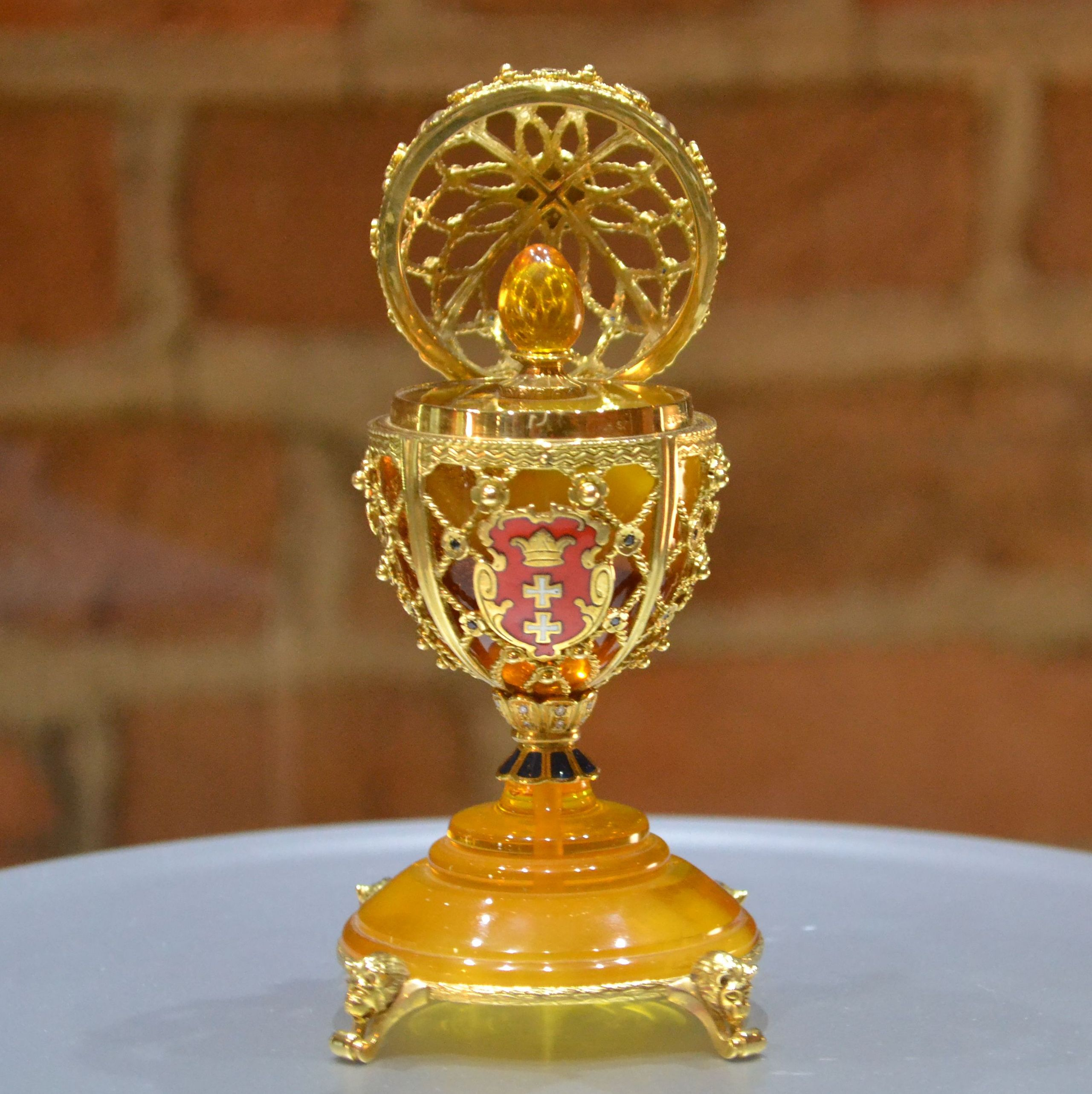 Danziger Bernstein